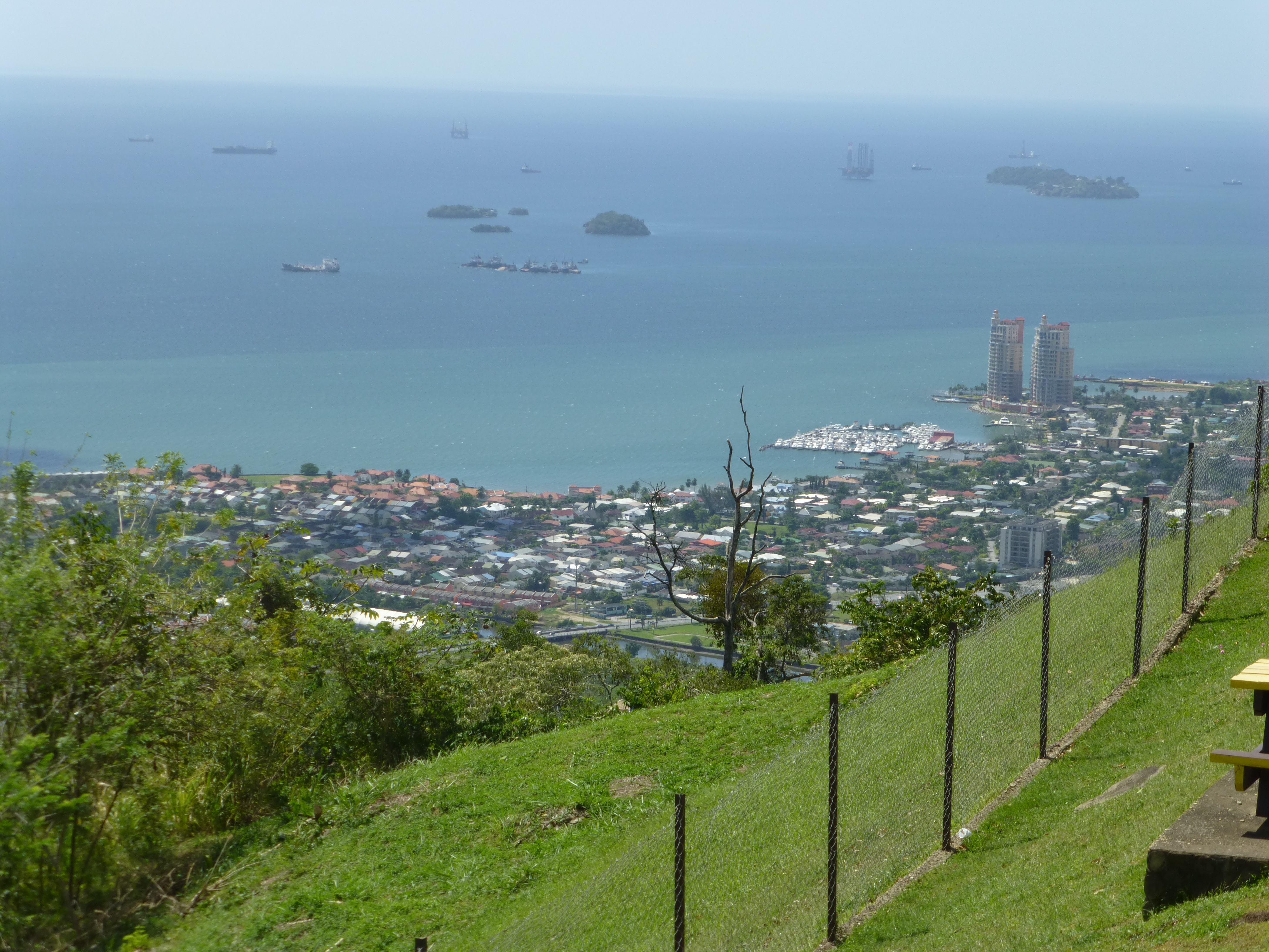 Westmoorings, Port of Spain, Trinidad. Background: Five Islands.